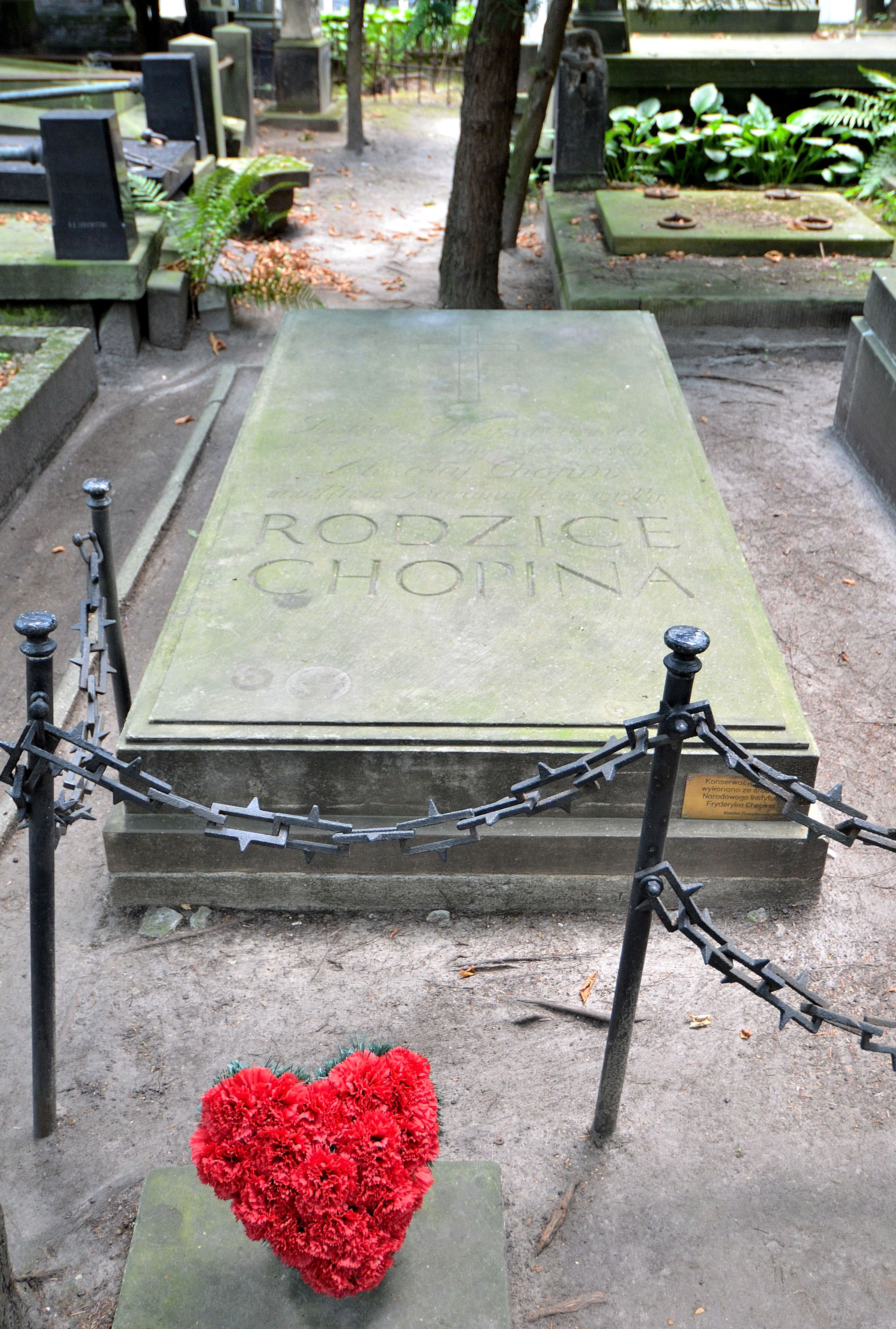 Grave of parents of Frederick Chopin in Powązki Cemetery in Warsaw English | Polski | +/−